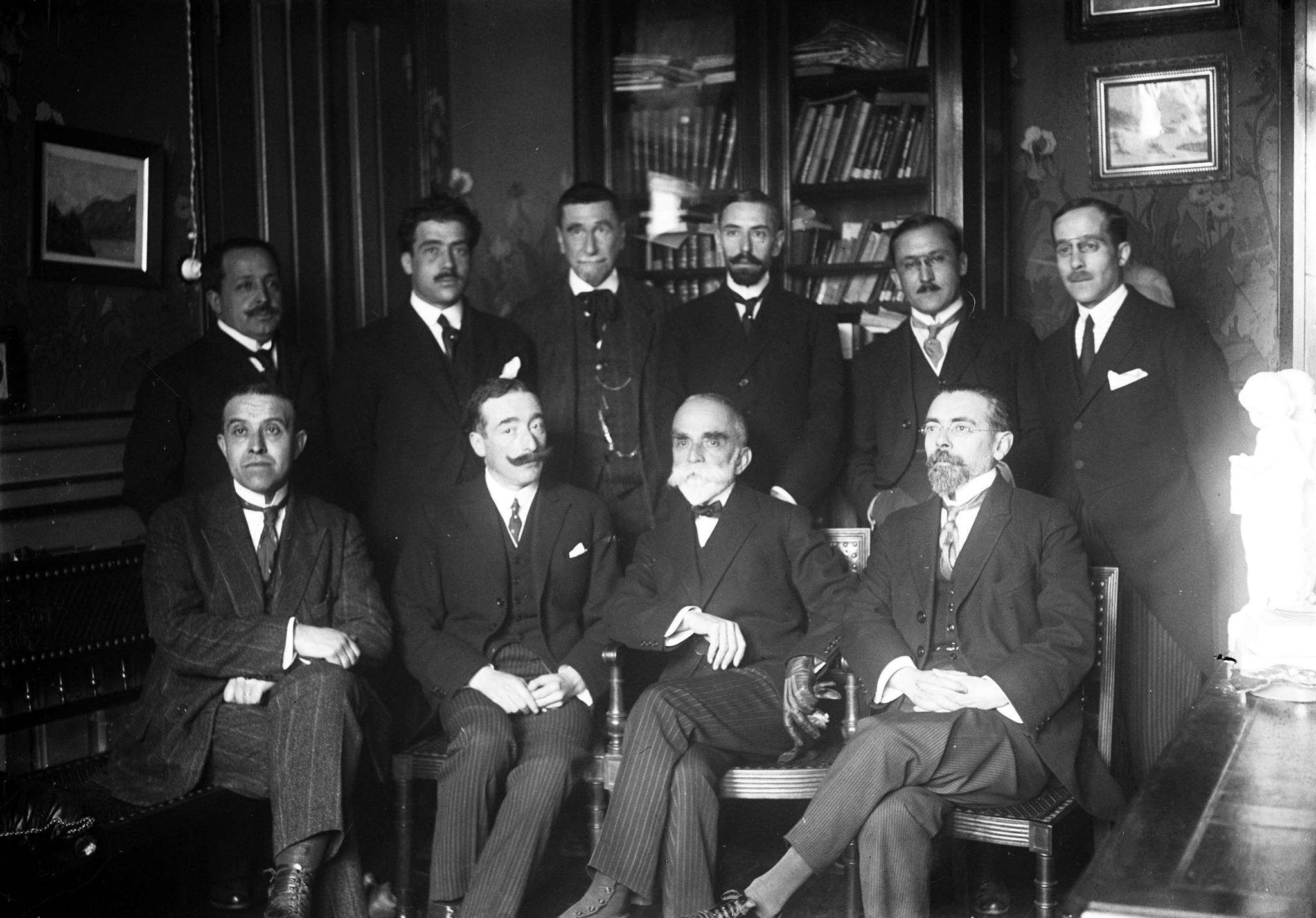 The cabinet led by Bernardino Machado (Portugal, 1921).